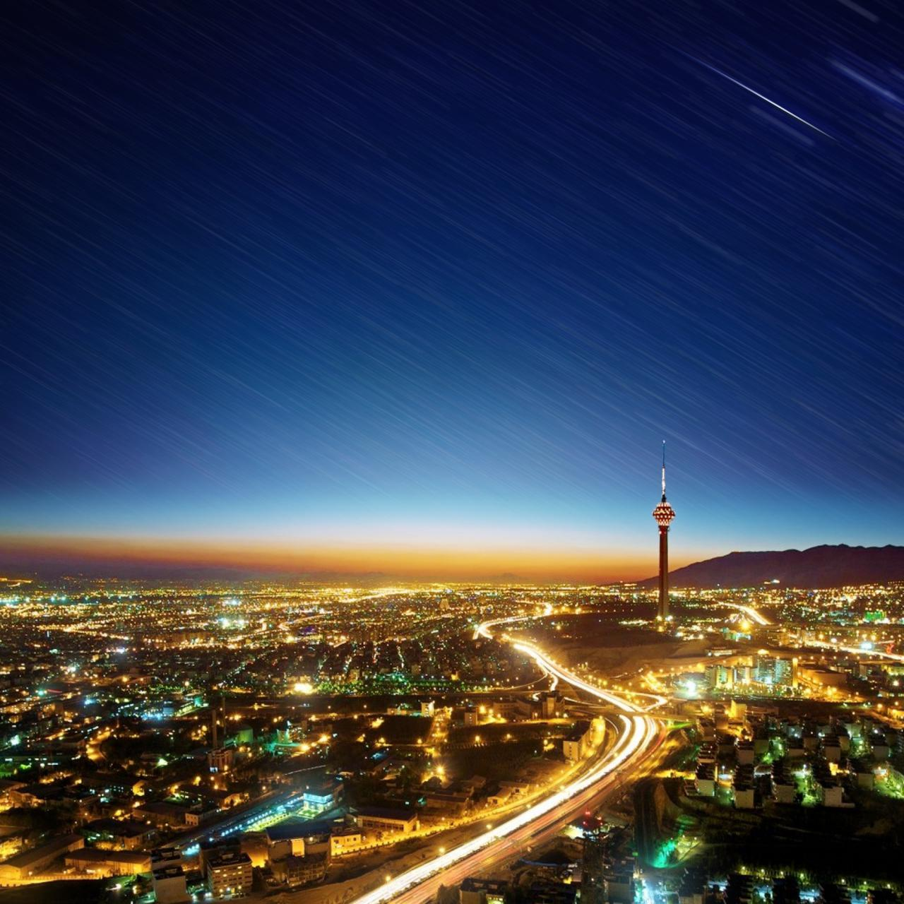 skyline of Tehran City and Star trails